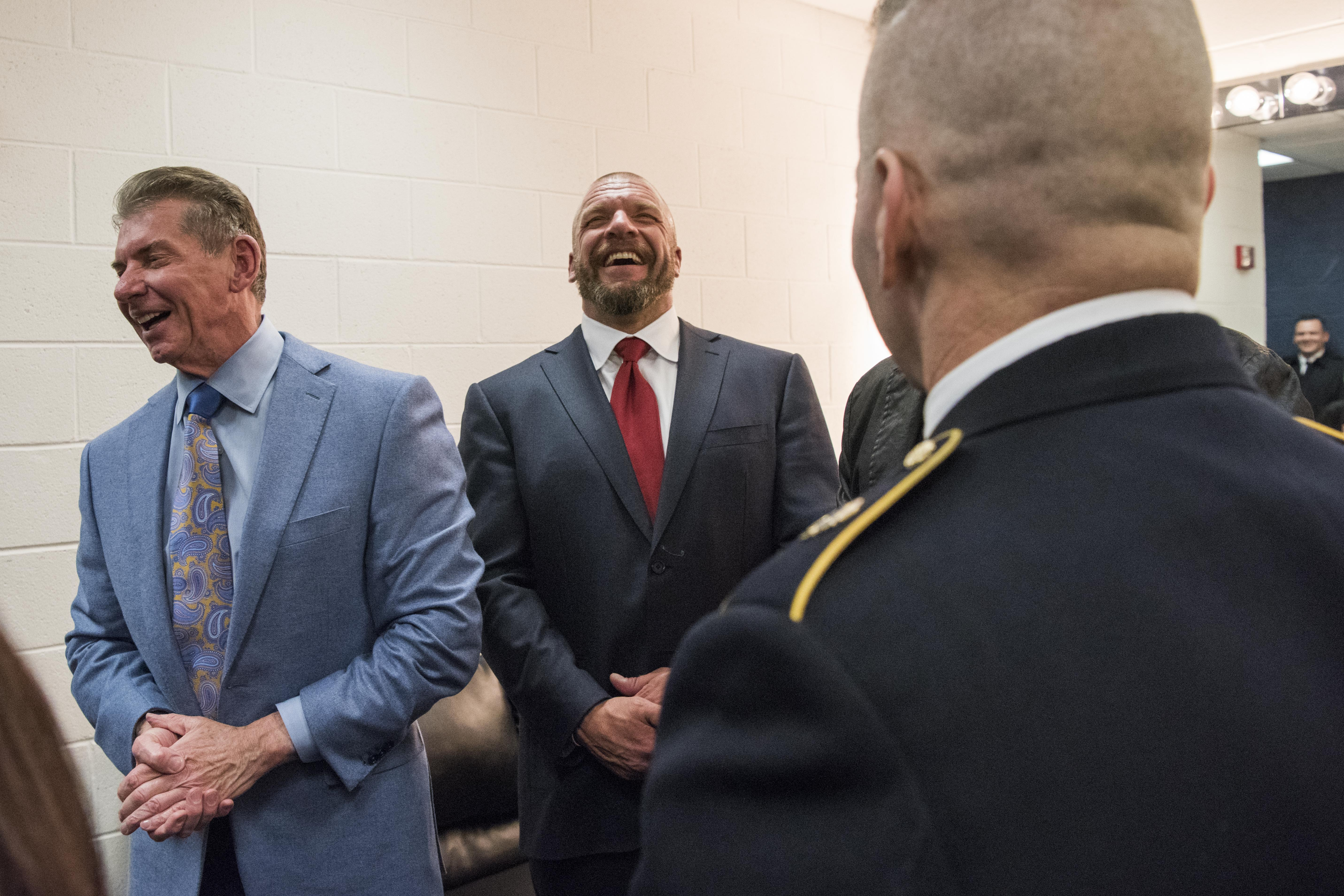 WWE CEO Vince McMahon and Paul "Triple H" Levesque speak to Army Command Sgt. Maj. John W. Troxell, Senior Enlisted Advisor to the Chairman of the Joint Chiefs of Staff, before the 14th Annual Tribute to the Troops Event at the Verizon Center in Washington, D.C., Dec. 13, 2016. WWE Tribute to the Troops is an annual event held by WWE and Armed Forces Entertainment in December during the holiday season since 2003, to honor and entertain United States Armed Forces members. WWE performers and employees travel to military camps, bases and hospitals, including the Walter Reed Army Medical Center and Bethesda Naval Hospital. DoD Photo by Navy Petty Officer 2nd Class Dominique A. Pineiro